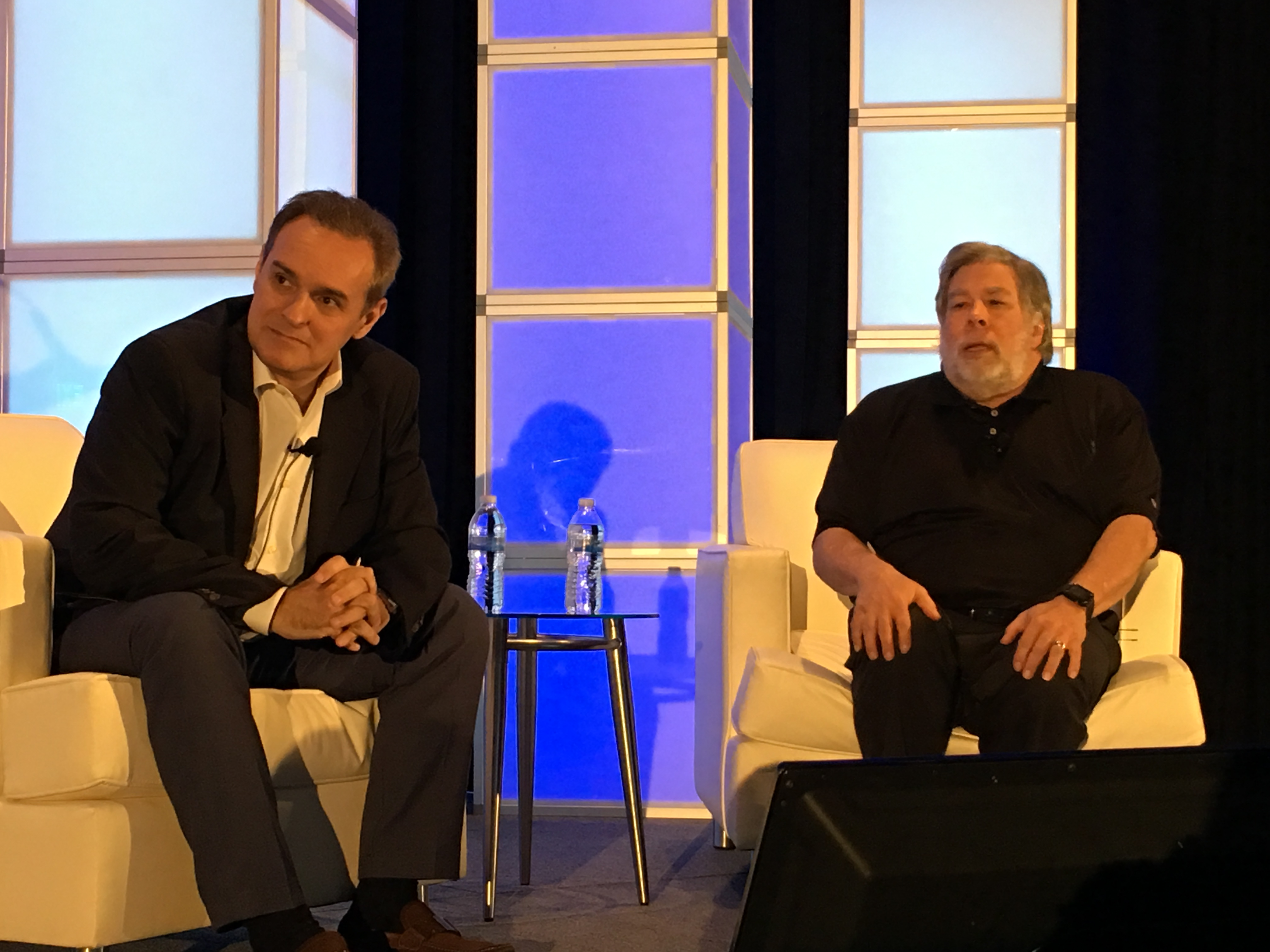 Antunes & Woszniak - Fog World Congress 2018